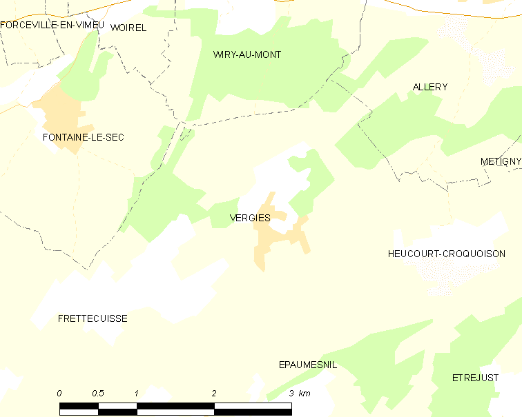 Map of French municipality Vergies